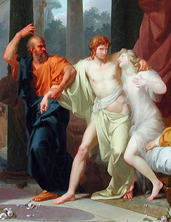 Socrate arrachant Alcibiade du sein de la Volupté (Socrates Tears Alcibiades from the Embrace of Sensual Pleasure). Oil on canvas, 1791.